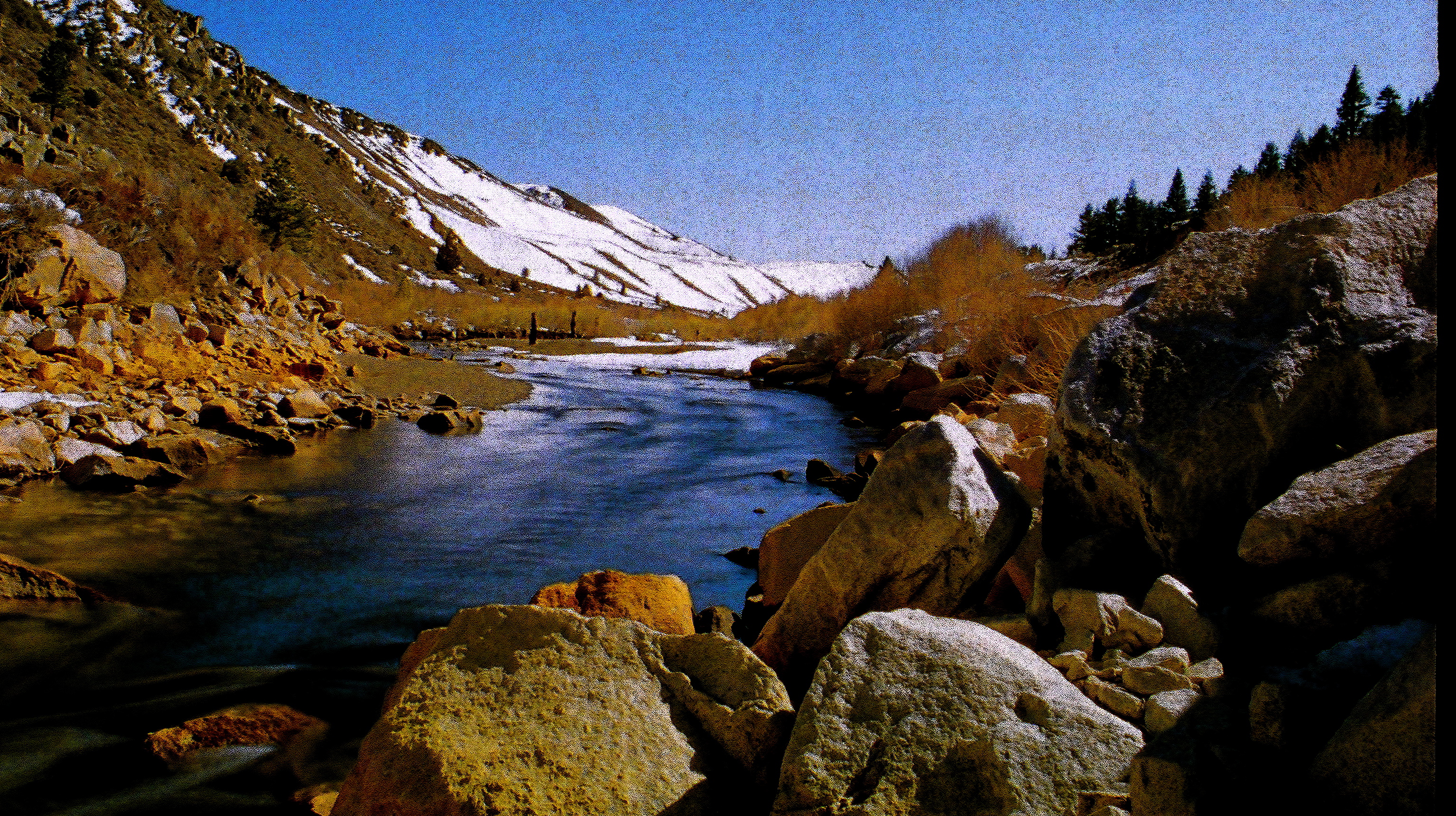 the walker river off HWY 395 Ca. .5sec exp.